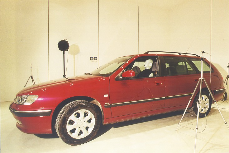 Acoustic study for a car.